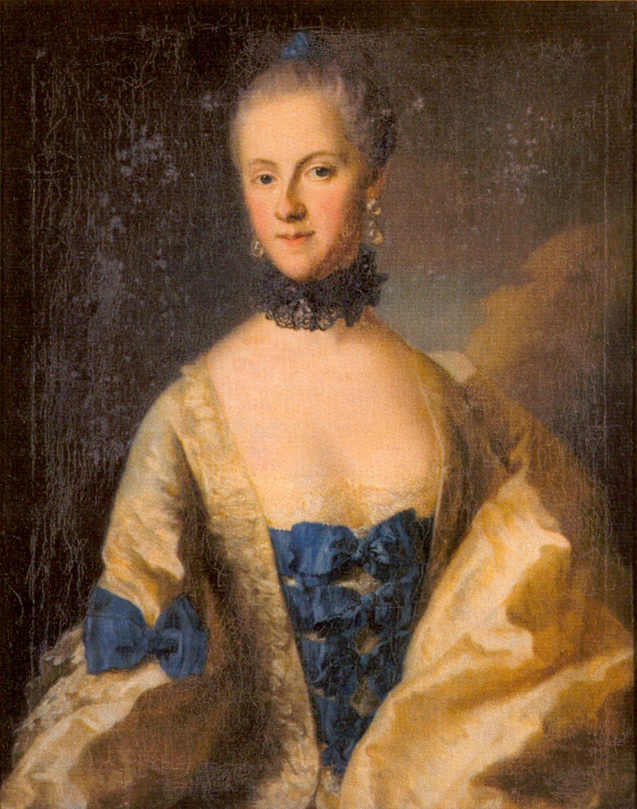 Portrait of Maria Anna von der Wahl (1736-1808), widow of Joseph Wilhelm Ernst, Prince of Fürstenberg (1699-1762)